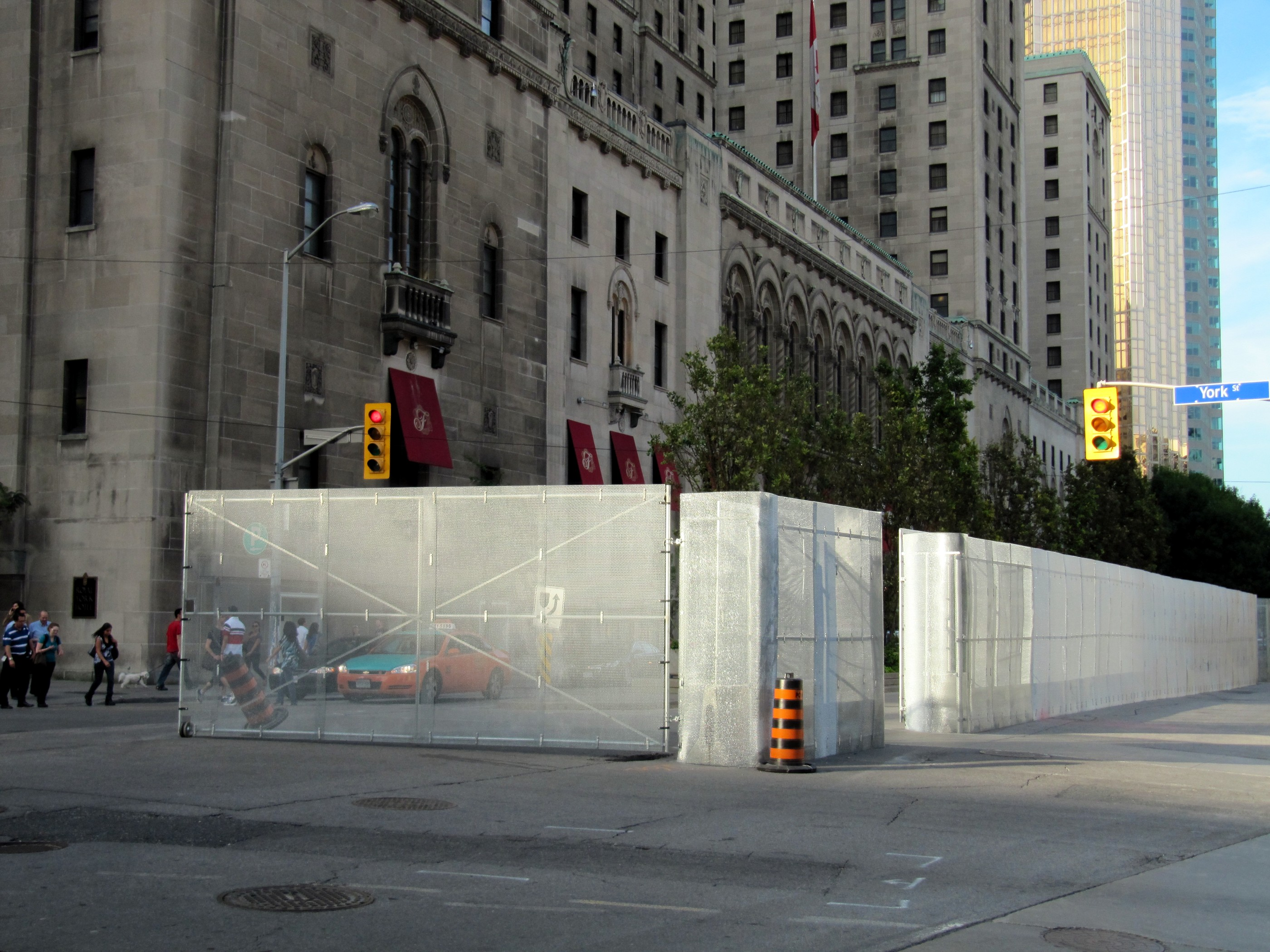 The G20 conference is coming to Toronto this weekend, and the security folks have built a great big fence to keep the populace safe from all the politicians.